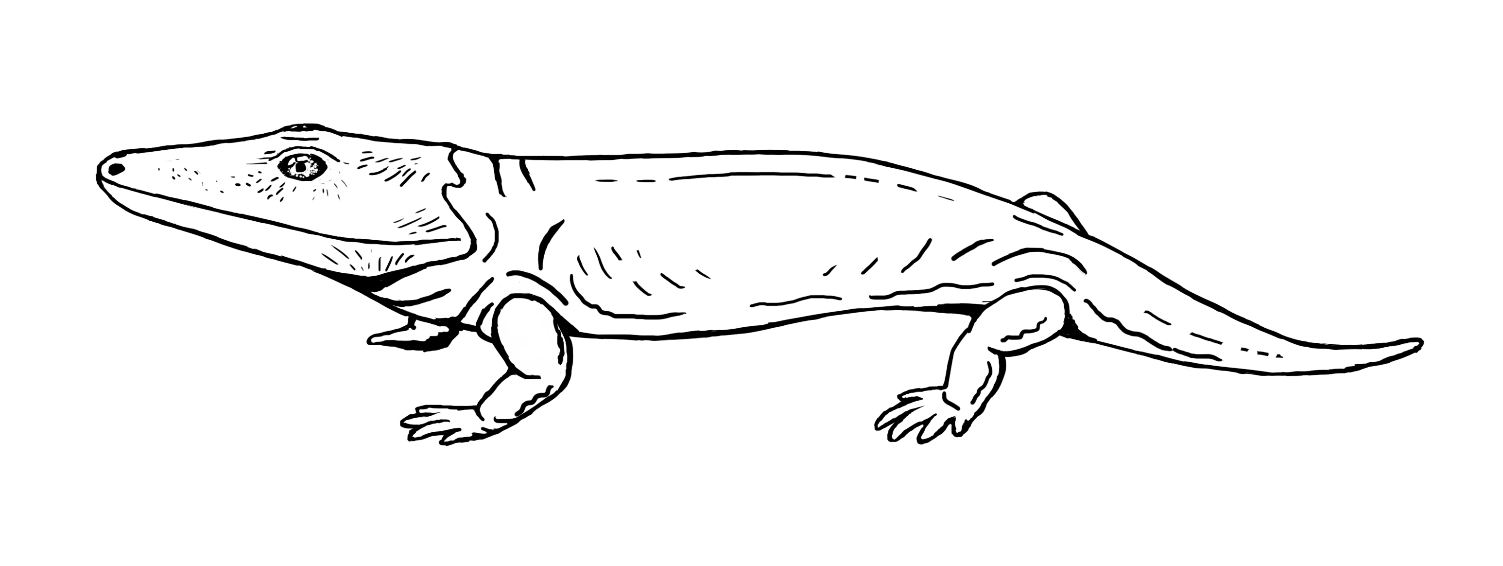 Life restoration of Broomistega putterilli. Based on Figure 3 of "A relict rhinesuchid (Amphibia: Temnospondyli) from the Lower Triassic of South Africa" by M. A. Shishkin and B. S. Rubidge (Palaeontology 43(4): 653-670